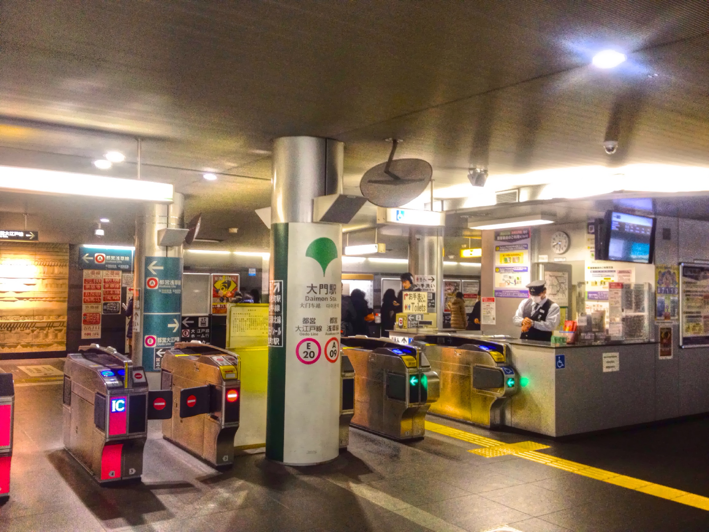 大門駅の改札 (Daimon station ticket gates)